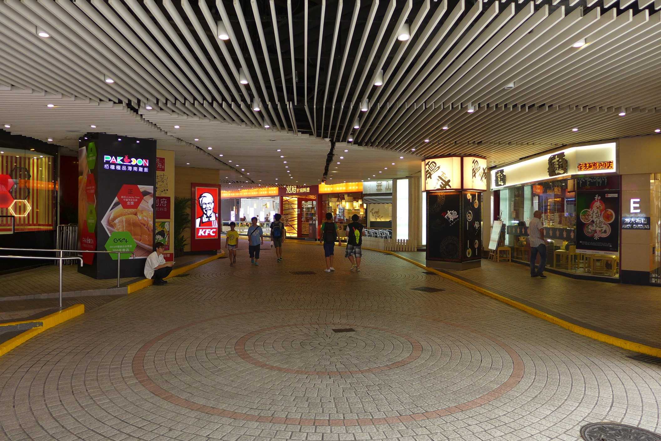 Amoy Plaza Food Front